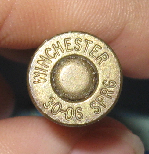 The Stamped Cartridge info.